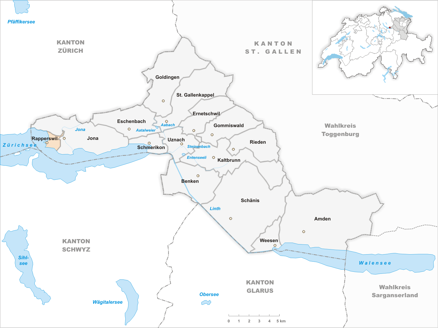 Municipality Rapperswil Artist: Tschubby